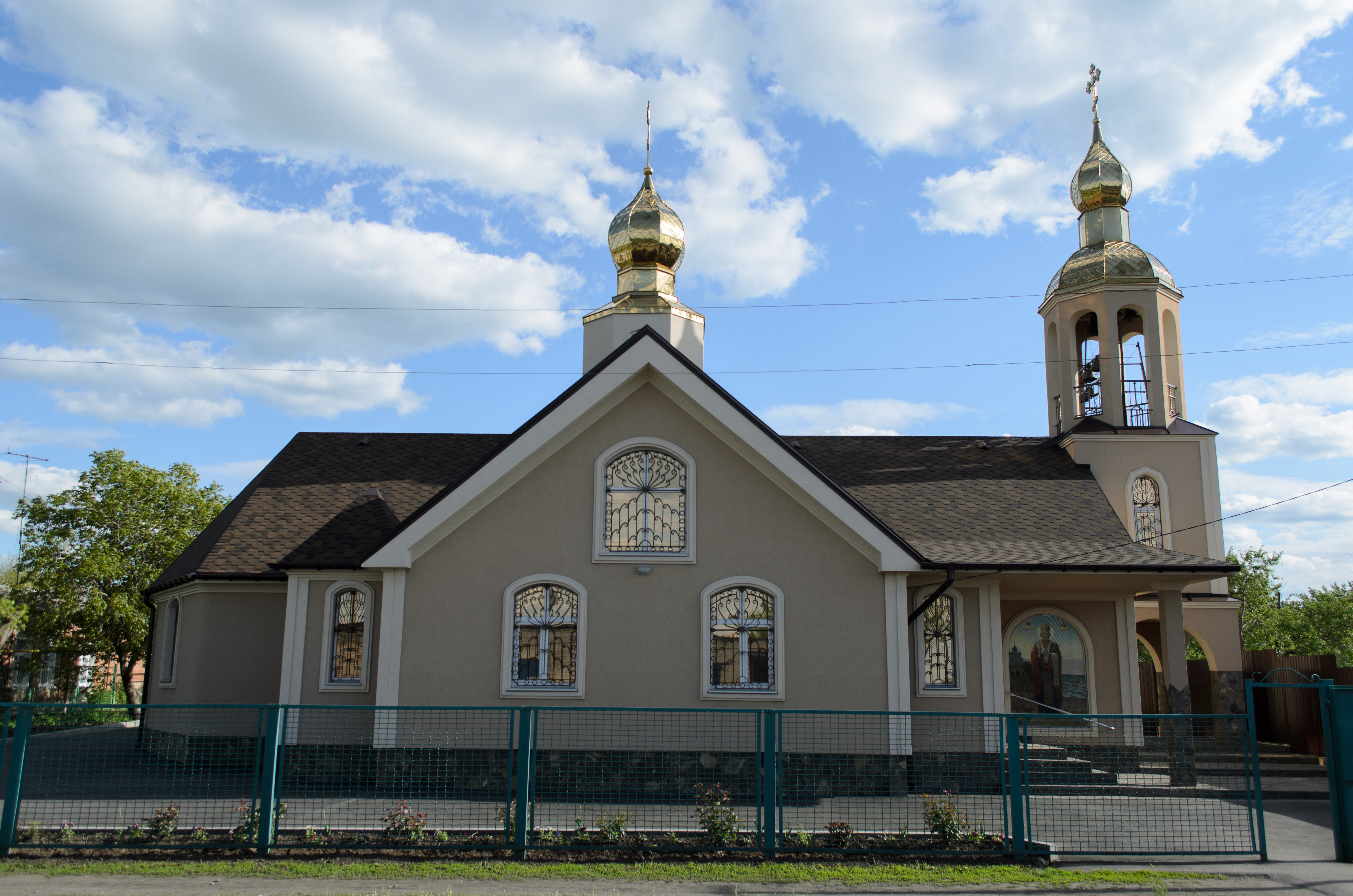 St. Nicholas Church, Lyubotyn